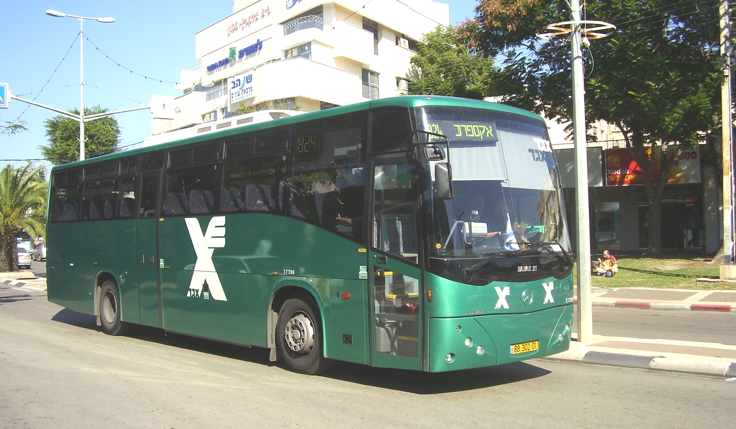 An Egged bus in Afula, Israel